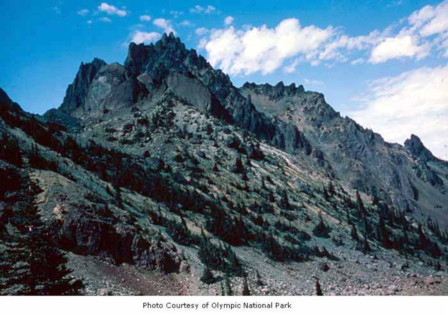 The Needles and Mount Clark, Olympic National Park, date unknown